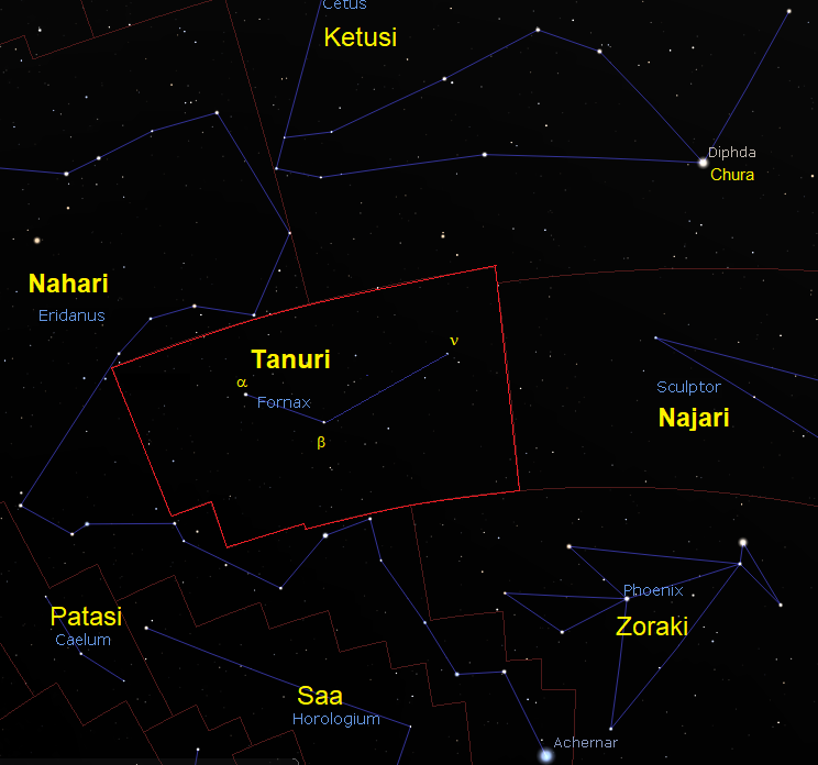 Constellation Fornax as seen from Tanzania, Swahili labelled Kiswahili: Kundinyota Tanuri (Fornax) jinsi inavyoonekana kutoka Tanzania, majina kwa Kiswahili